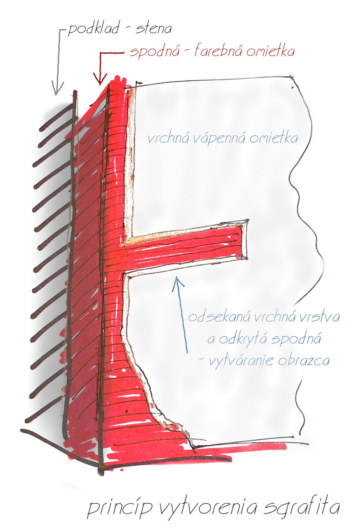 sketch describing the principle of creating sgraffito